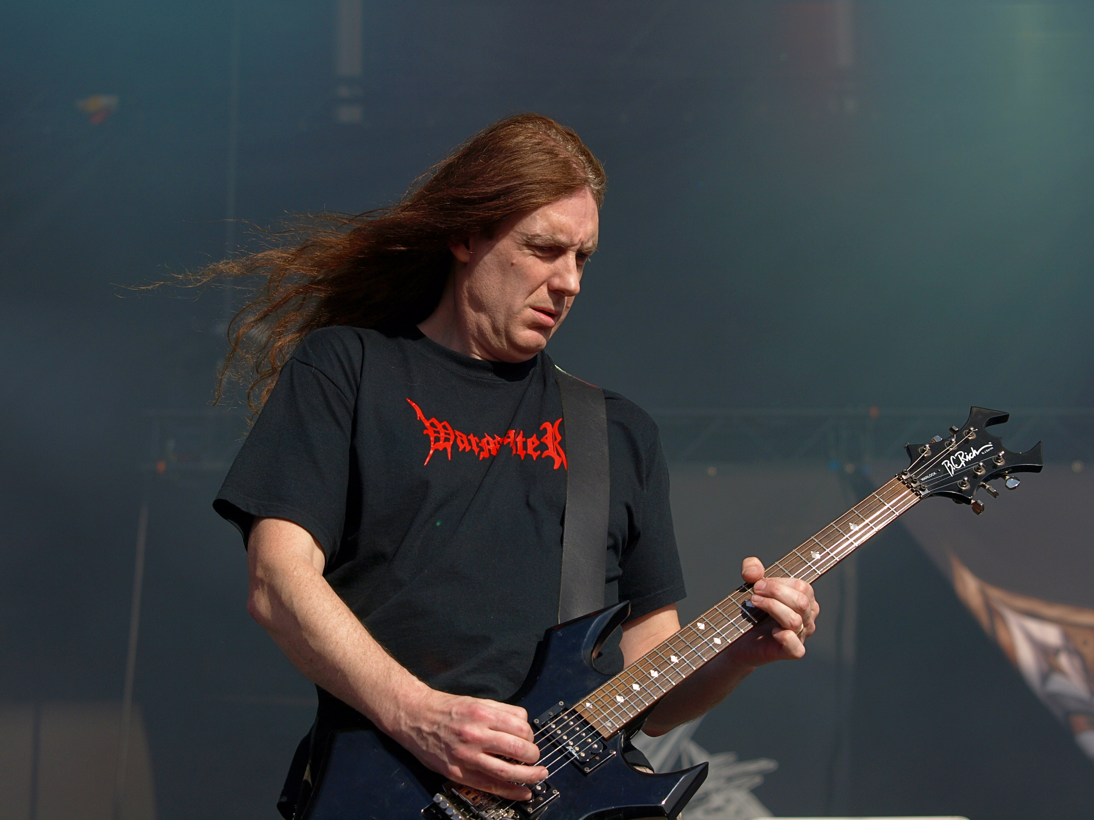 British death metal band Bolt Thrower live atTuska Open Air 2013